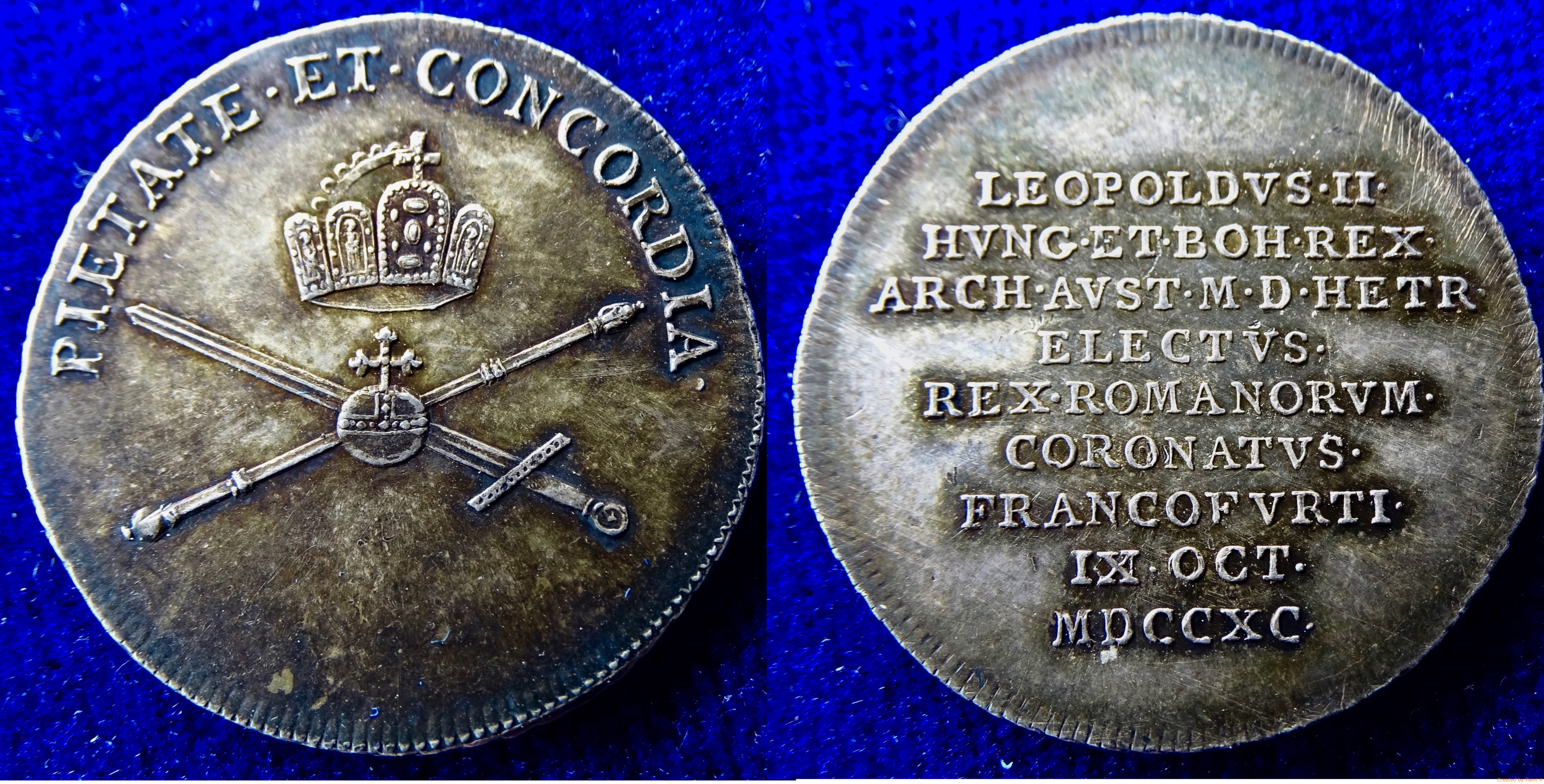 Frankfurt am Main 1.5 Ducat 1790 Silver Strike Coronation Coin Leopold II. EF. D. = 25 mm. 4.37 g Ag. Leopold II, Holy Roman Emperor, 1790 - 1792 The Imperial Crown above the crossed Imperial Sceptre with the Imperial Sword under the Imperial Orb. Curved above: "PIETATE · ET · CONCORDIA ·"/ 9 lines: "LEOPOLDVS · II · HVNG · ET · BOH · REX · ARCH · AVST · M · D · HETR · ELECTVS · REX · ROMANORVM · CORONATVS · FRANCOFVRTI · IX · OCT · MDCCXC·. J.u.F. 935 var.;Friedberg 1030 Au; KM 278 (Au). Medallist: Johannn Georg Bunsen, Mint-master, 1766 Frankfurt - 1833 Frankfurt Condition: EXTREMELY FINE, old patina.